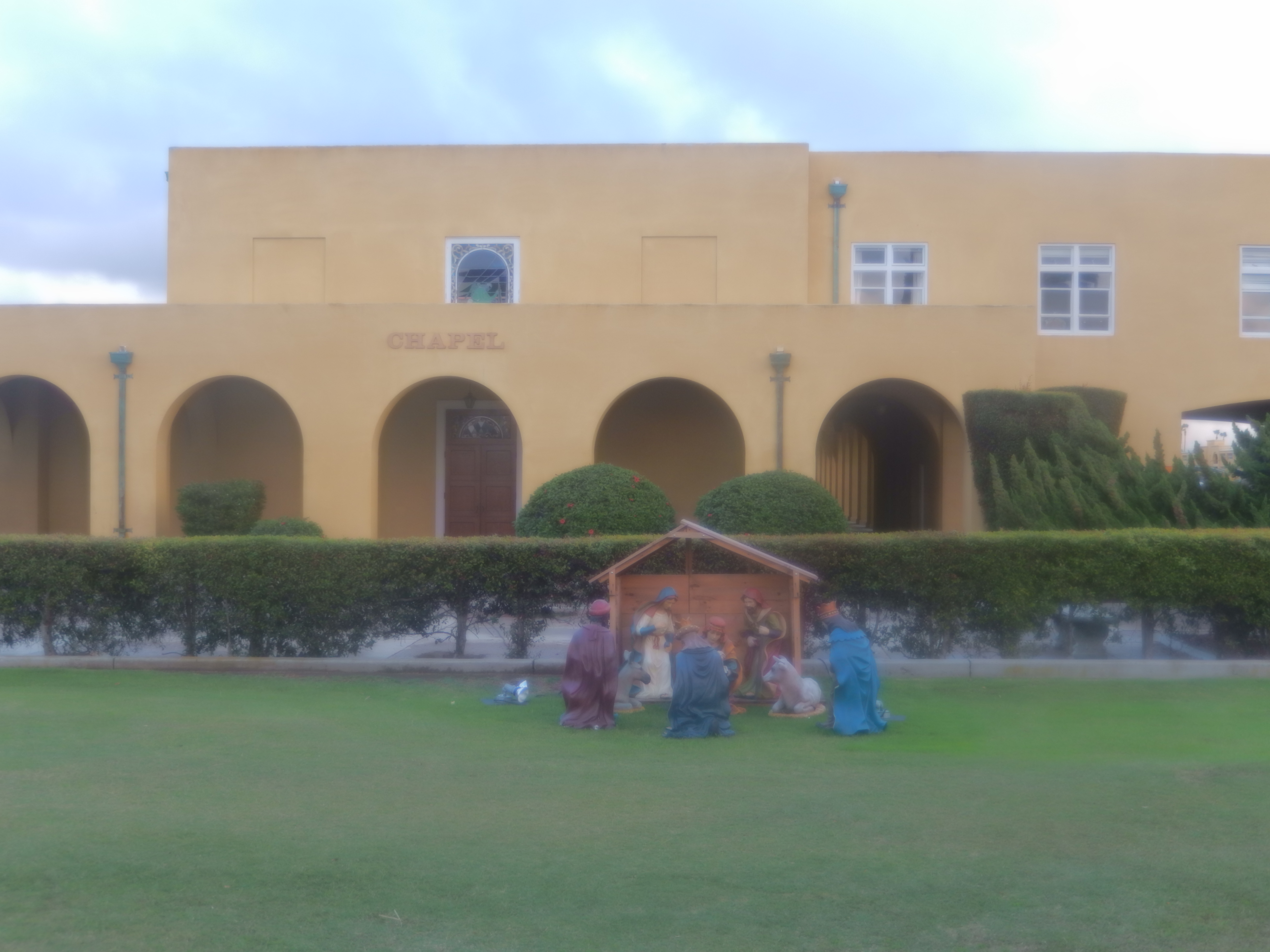 I took photo of chapel at Marine Corps Recruit Depot San Diego with Canon camera.